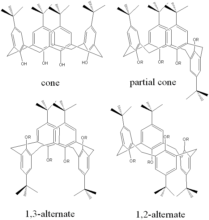 Calix[4]arenes in different conformations Calixarene in den verschiedenen Konformationen Draw with Chemdraw